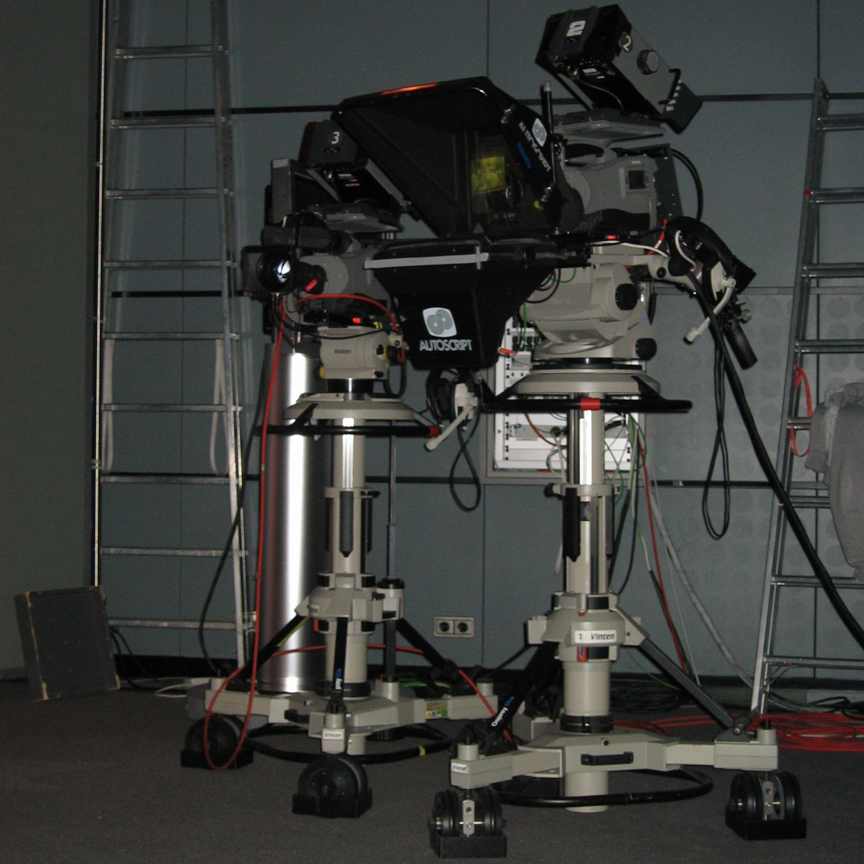 Two television cameras at the Television studio of Hessischer Rundfunk in Main Tower, Frankfurt am Main